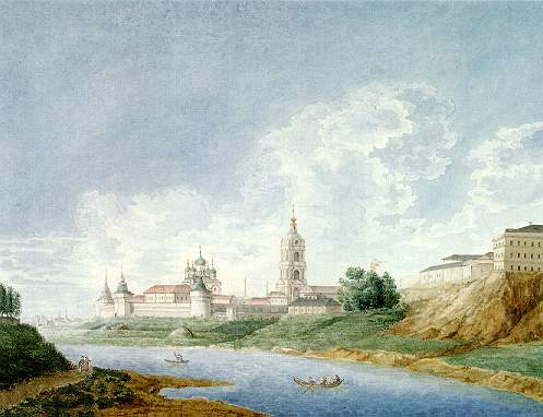 View Novospasski monastery Artist =